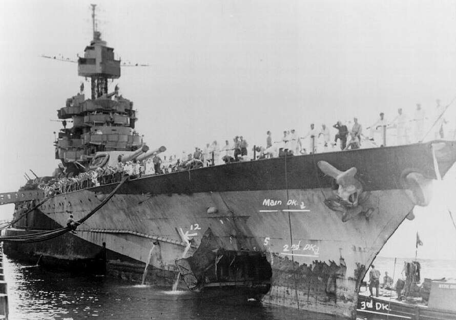 Entering drydock at Pearl Harbor Navy Yard 10 July 1944, for torpedo (aerial) damage repair and the replacement of her bow. Source: US Navy URL: [1]